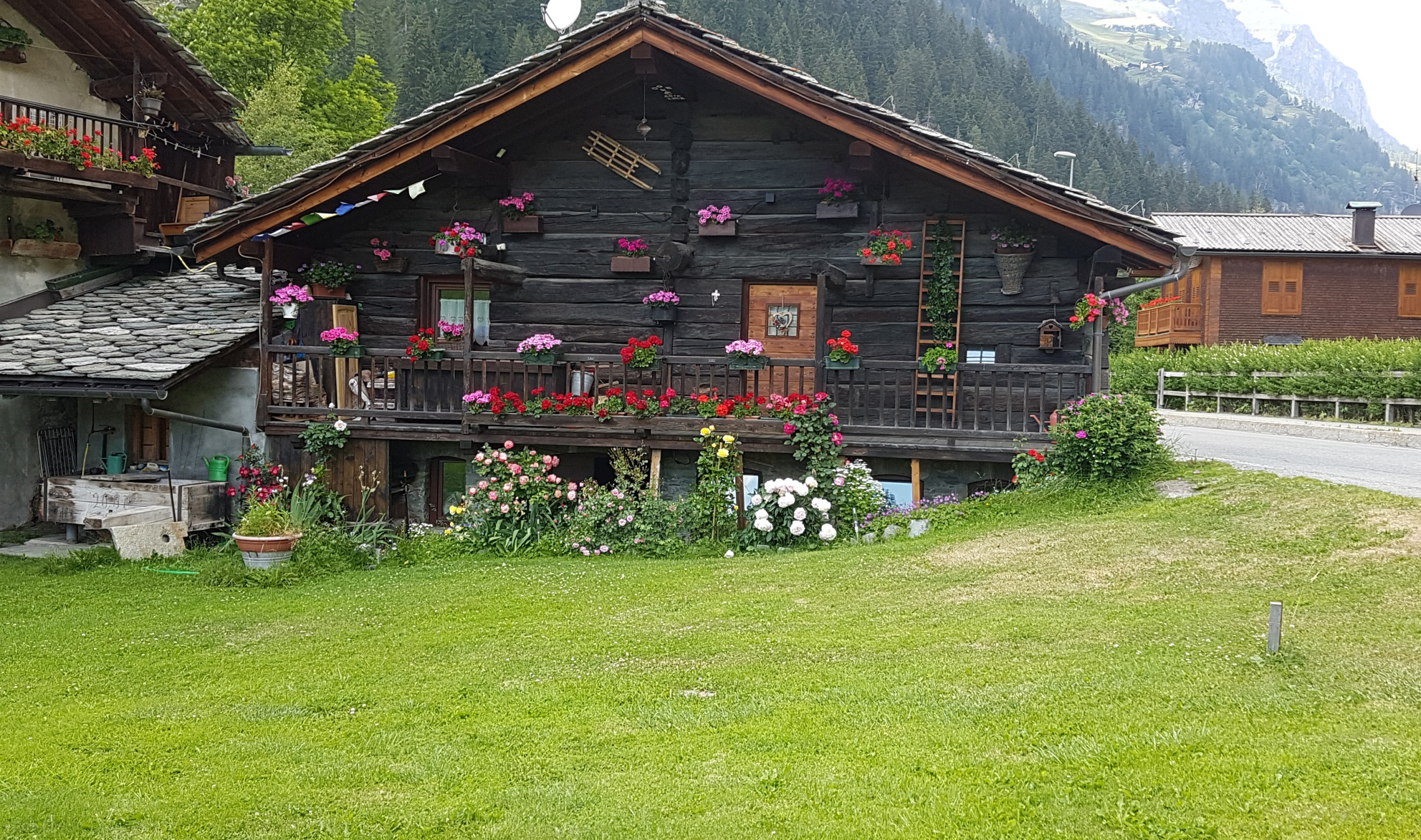 A typical Walser House in Gressoney, Aosta Valley Italy